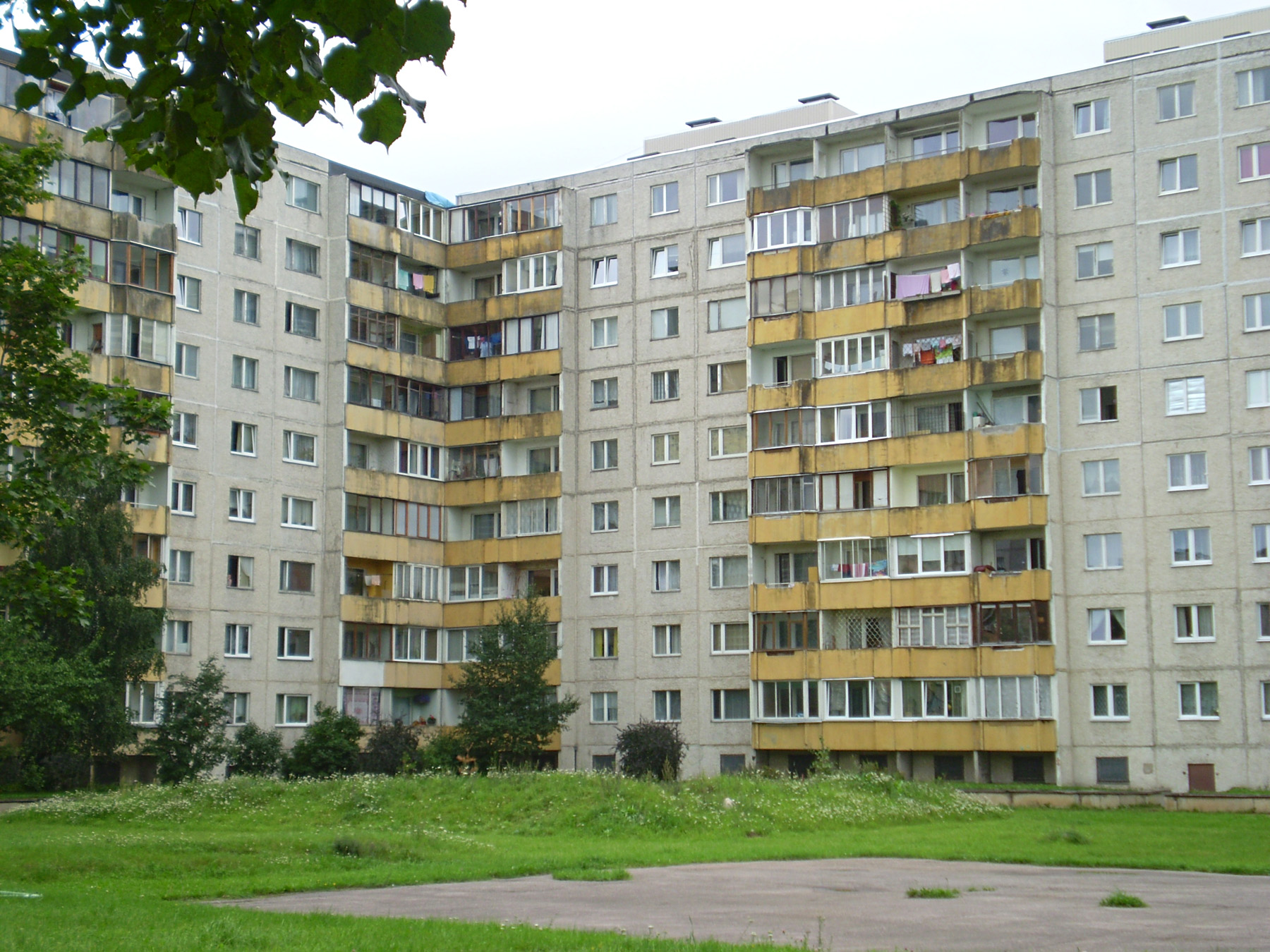 Multistorey house in Lasnamäe, Tallinn.